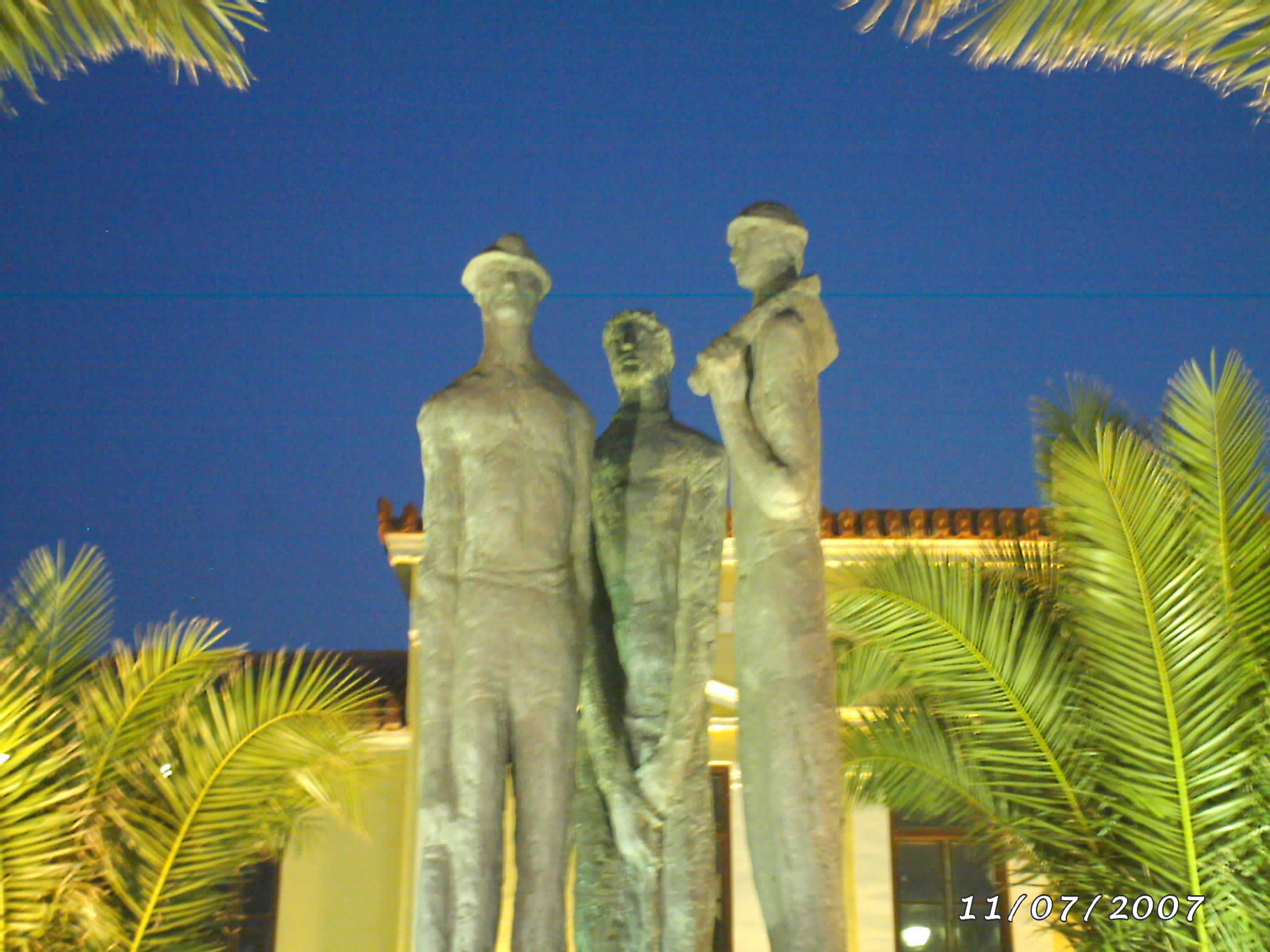 Mine workers at Lavrion